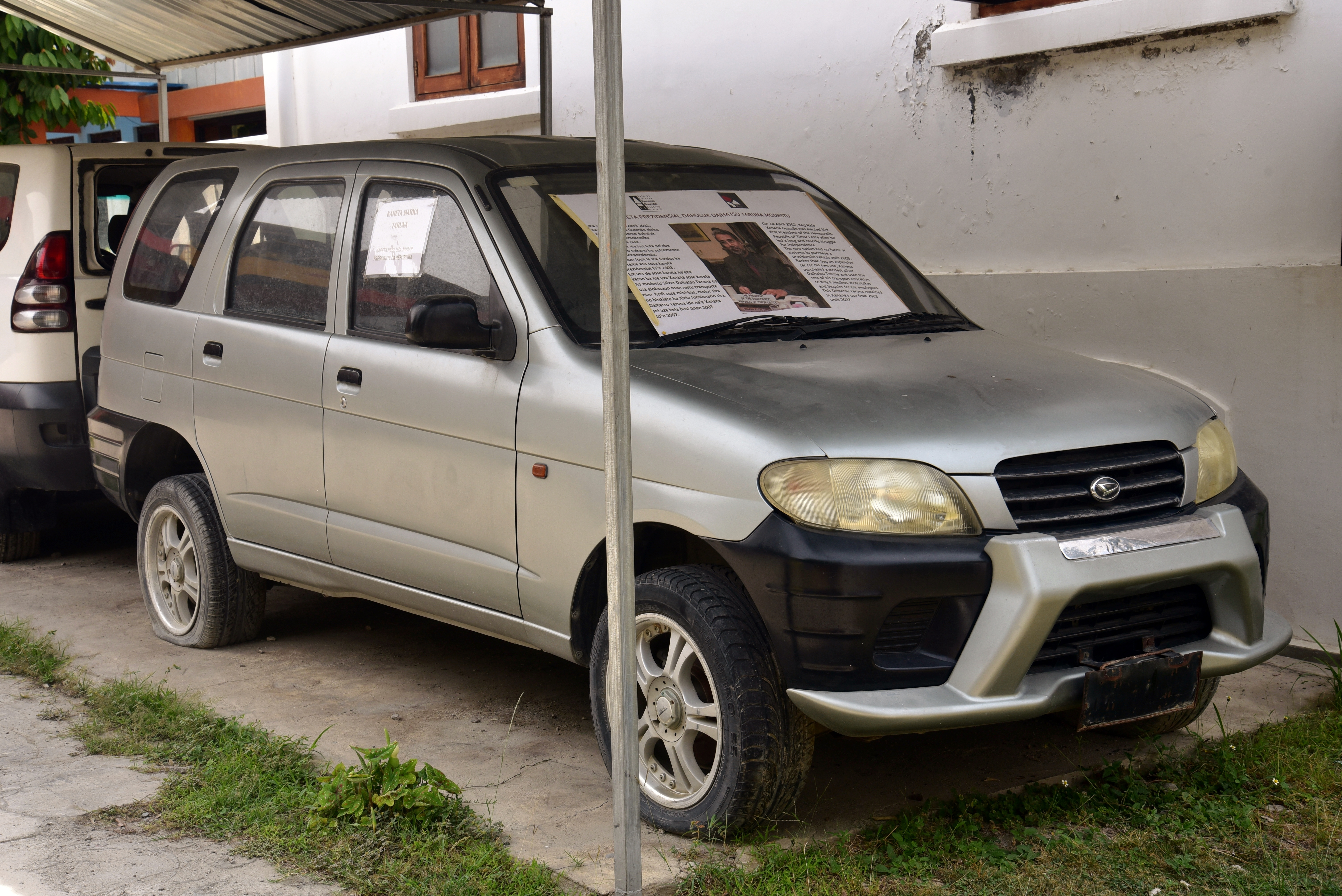 When Xanana Gusmão was elected as first President of East Timor in 2002, the new nation had no money to acquire a presidential vehicle. Gusmão therefore purchased this modest Daihatsu Taruna and spent the rest of his transport allocation on buying a variety of vehicles for his staff. He used this vehicle from 2003 to 2007. It is seen here on display at the Xanana Gusmão Reading Room in Dili.Source: the caption displayed on the windscreen